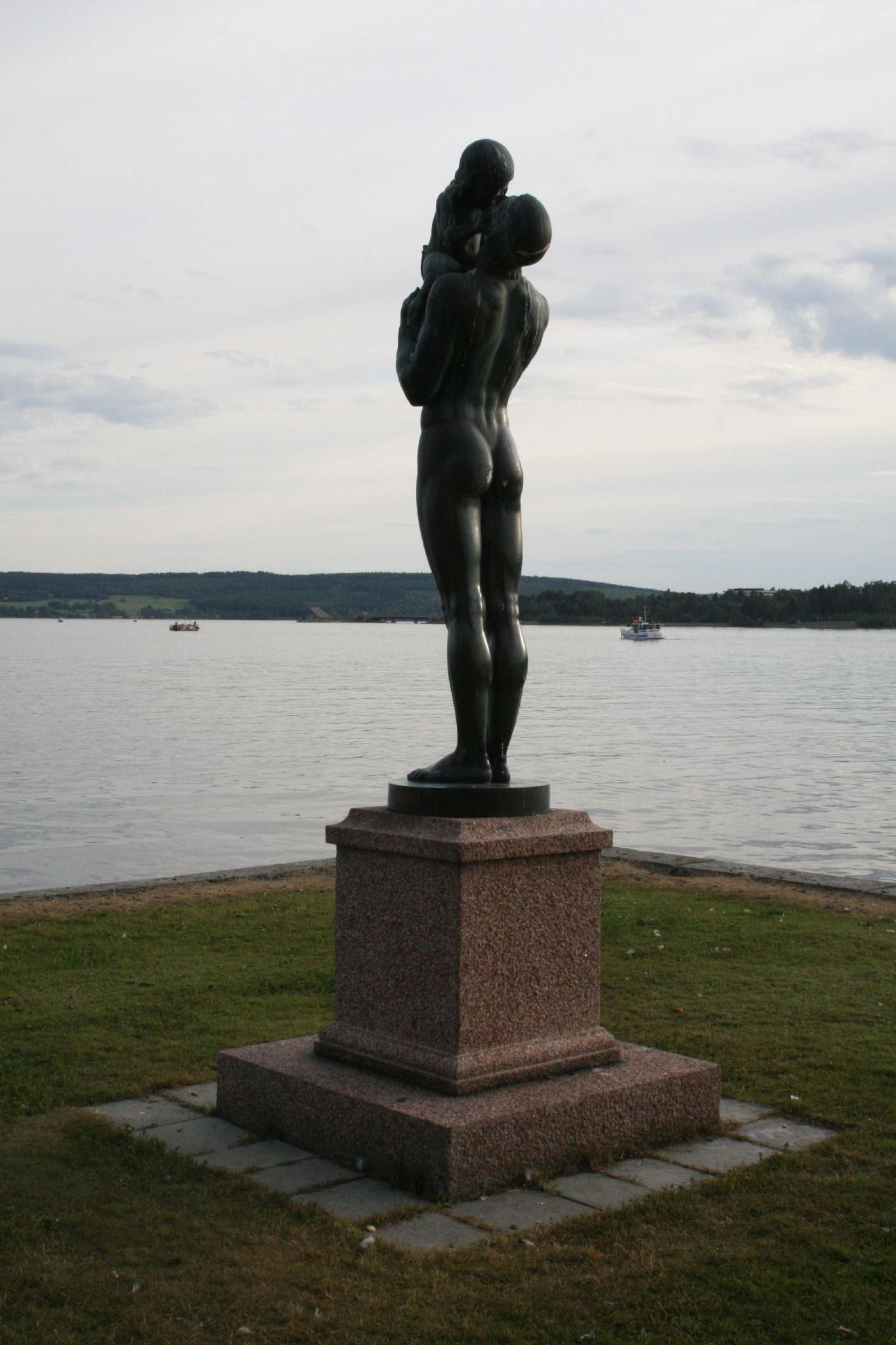 The statue Far och son "Father and son" by artist Olof Ahlberg (1921) in Östersund.